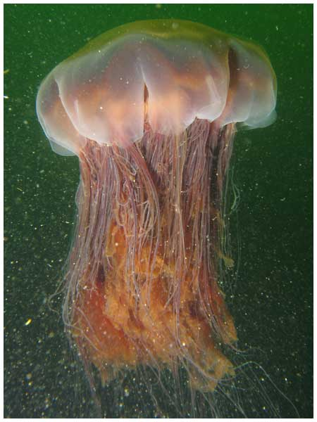 A Lion's mane jelly. Photo by Dan Hershman.